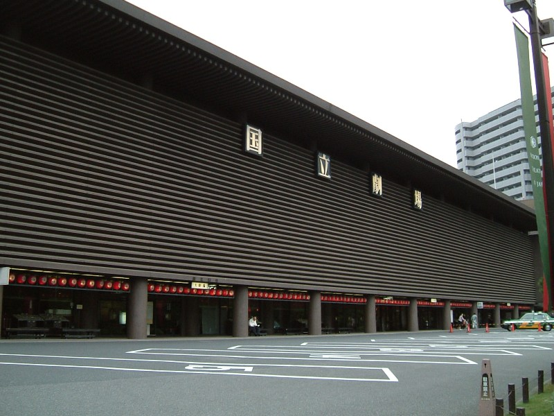 The National Theatre of Japan in Chiyoda, Tokyo